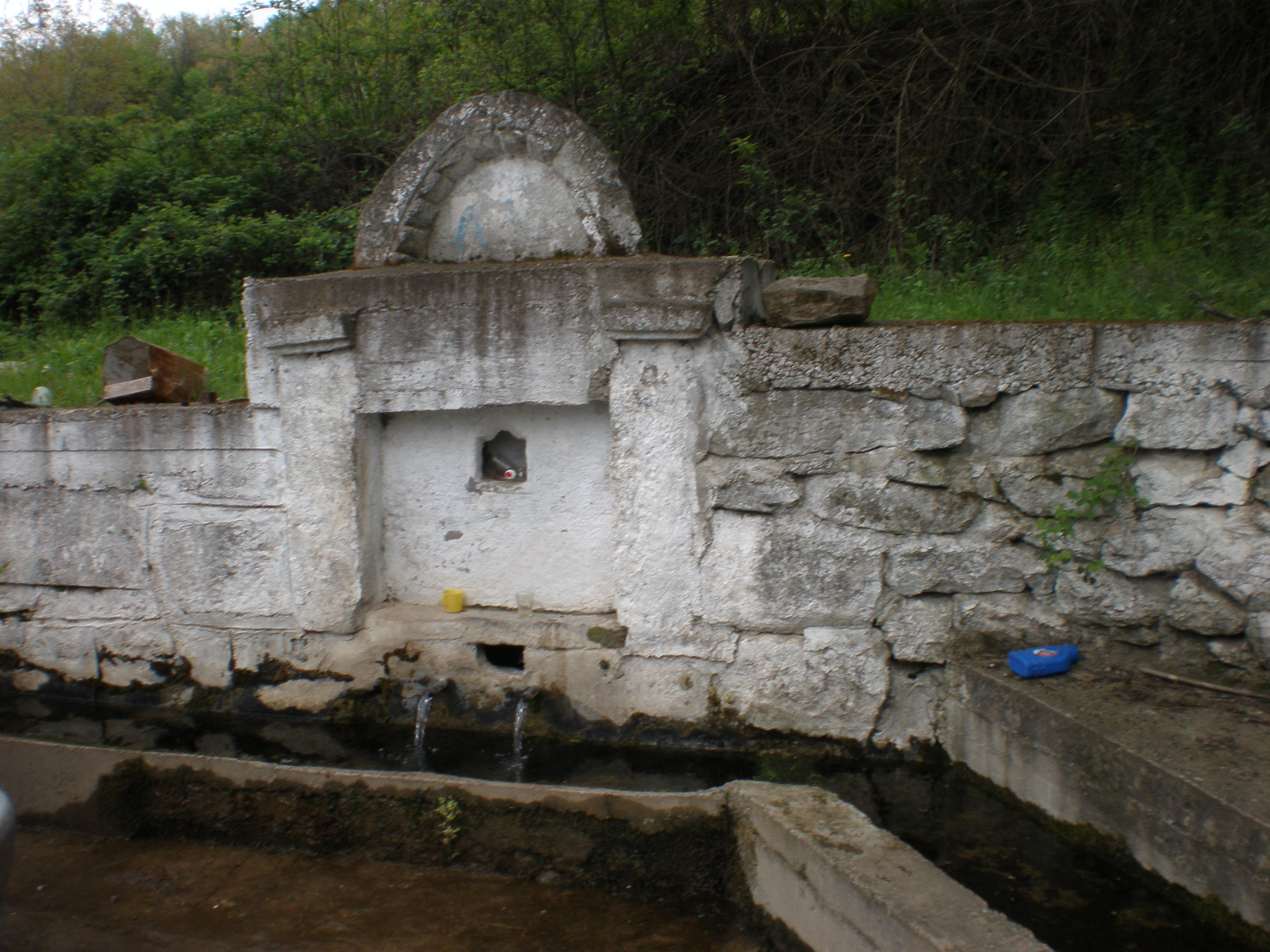 Village fountain in village of Gradmanci, Macedonia